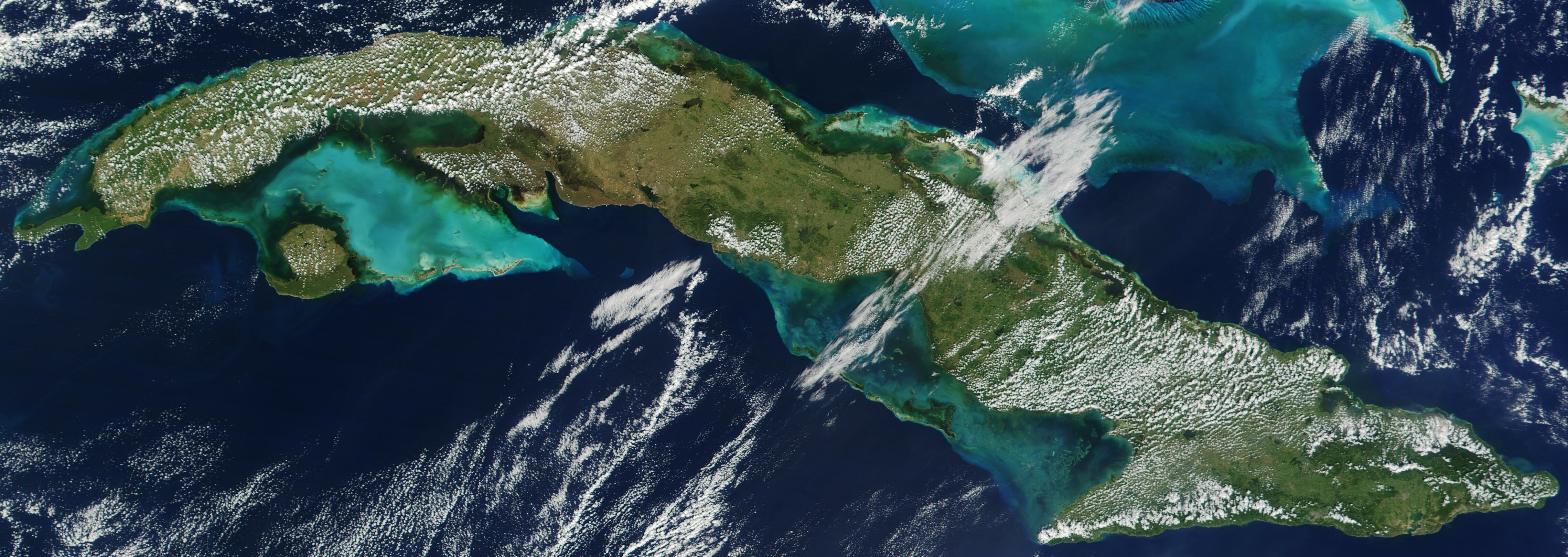 Satellite image of Cuba in November 2001.